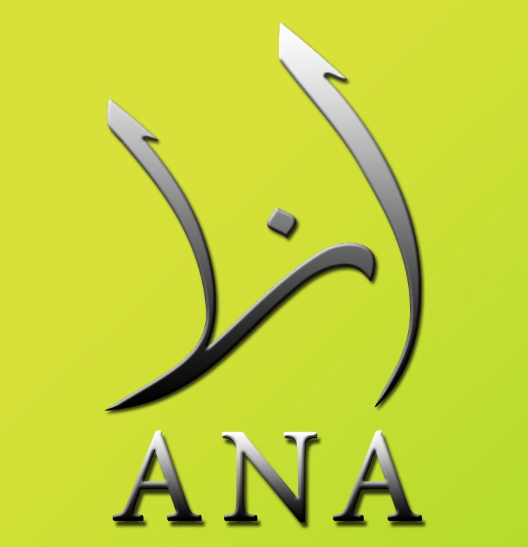 ANA New-Media association main logo originally made up of arabic lettering.